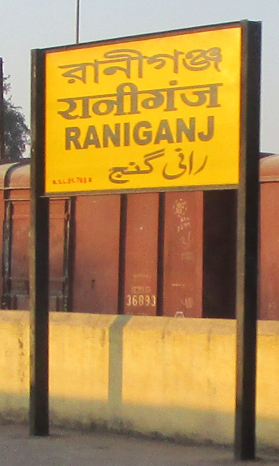 Raniganj railway station nameplate